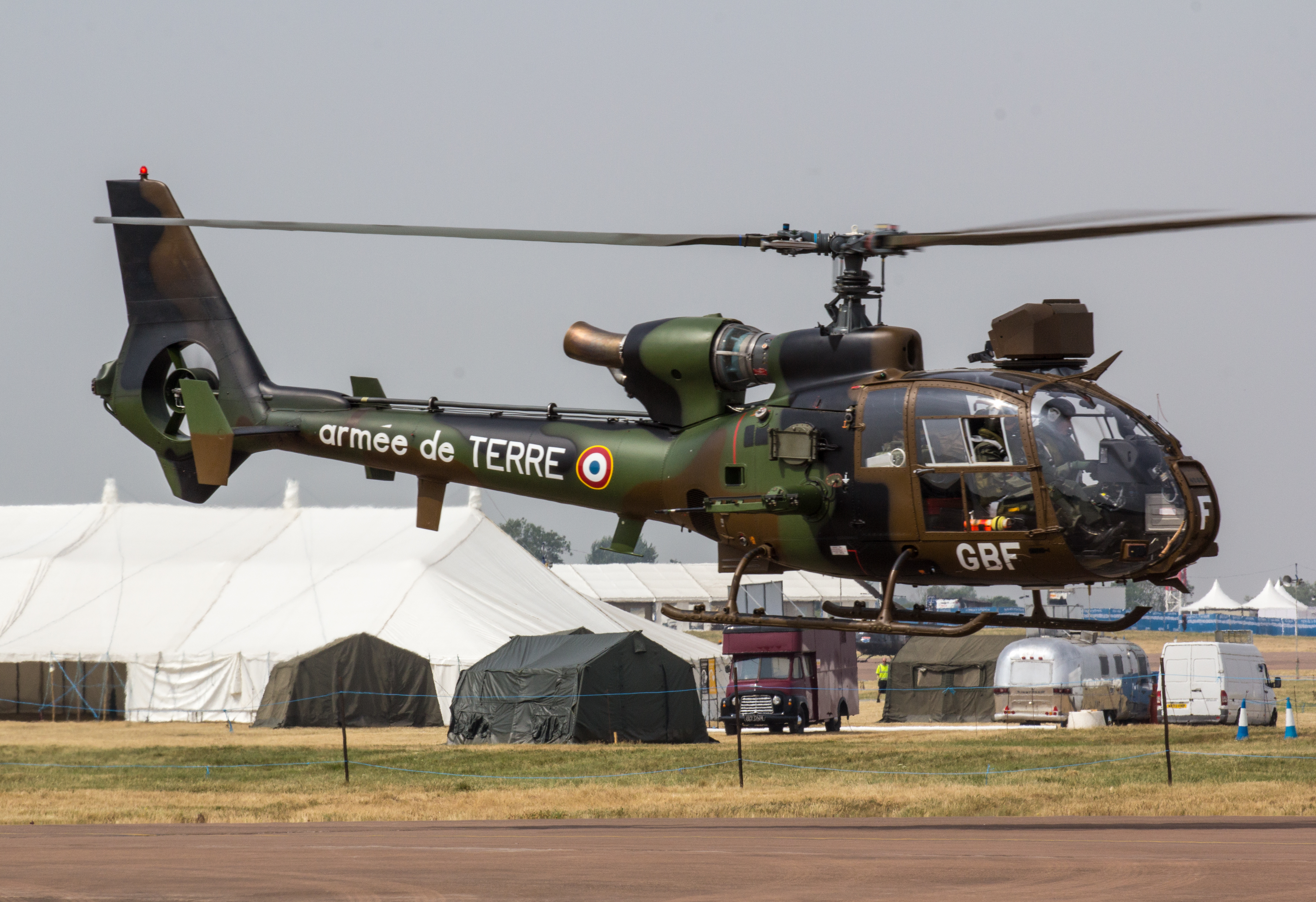 Royal International Air Tattoo 2013, Gloucestershire